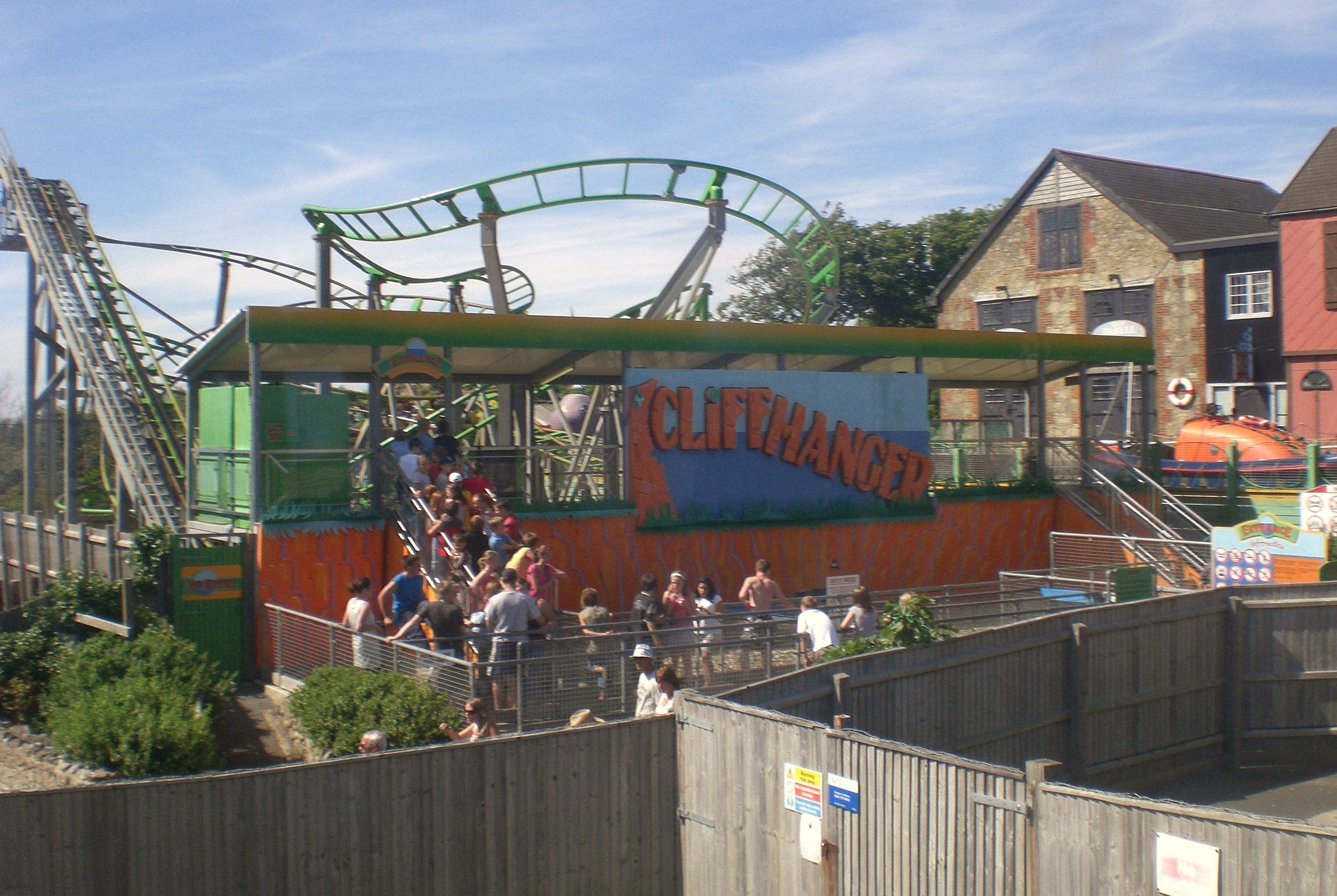 The Cliffhanger roller coaster ride at Blackgang Chine, a theme park on the Isle of Wight.